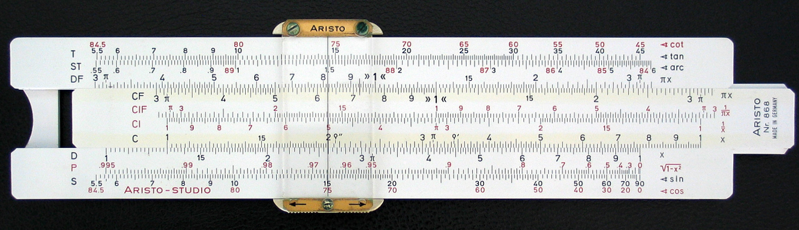 An old sliderule (showing the calculation 1.3 x 2 = 2.6).